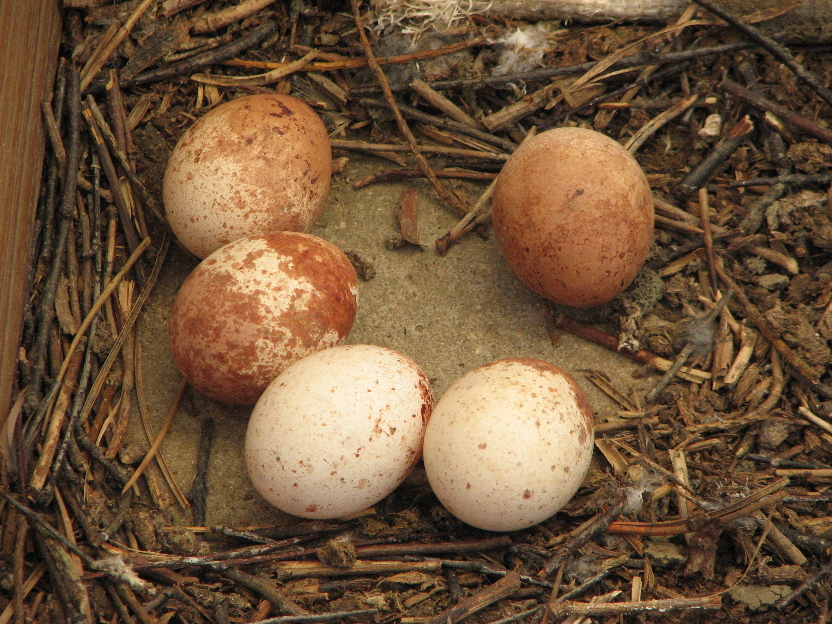 A kestrel nest with five eggs, detail.